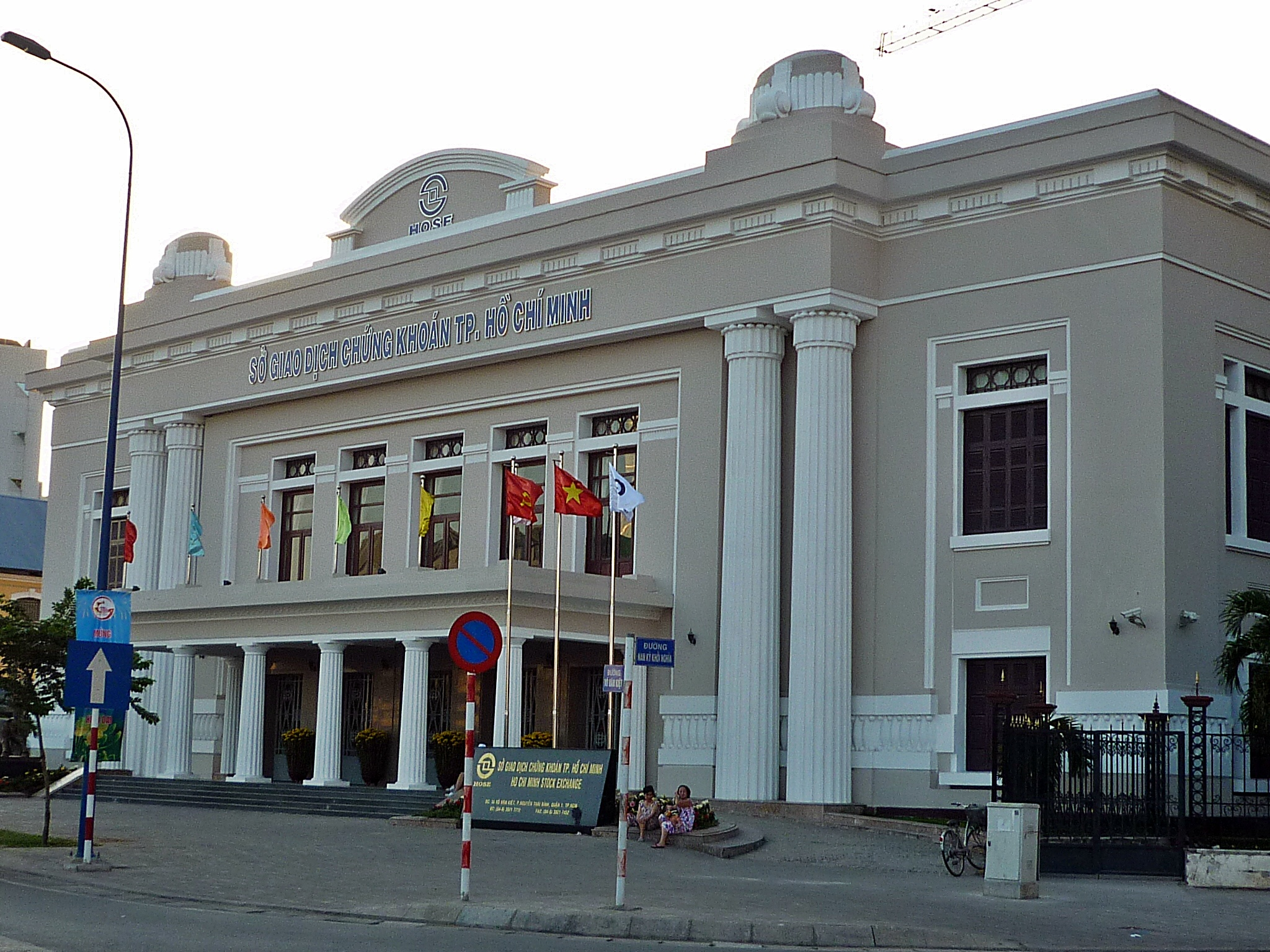 Ho Chi Minh City Stock Exchange located at the T-junction Vo Van Kiet and Nam Ky Khoi Nghia street.